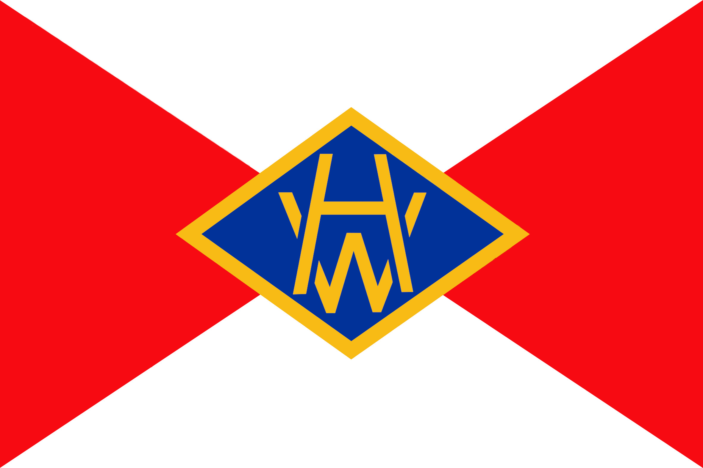 Drapeau d'Harland and Wolff.